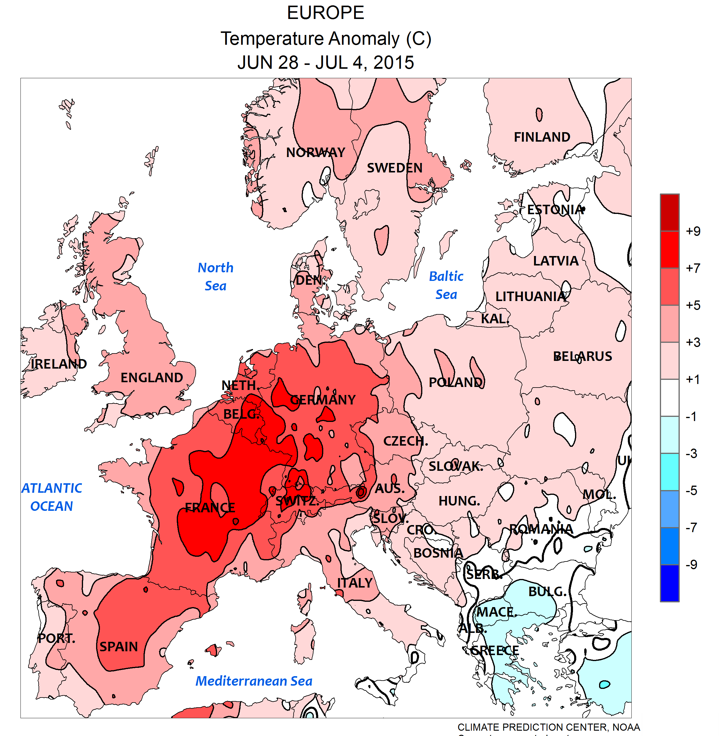 Europe: Temperature anomaly June 28 - July 4, 2015, computer generated concours, based on preliminary data